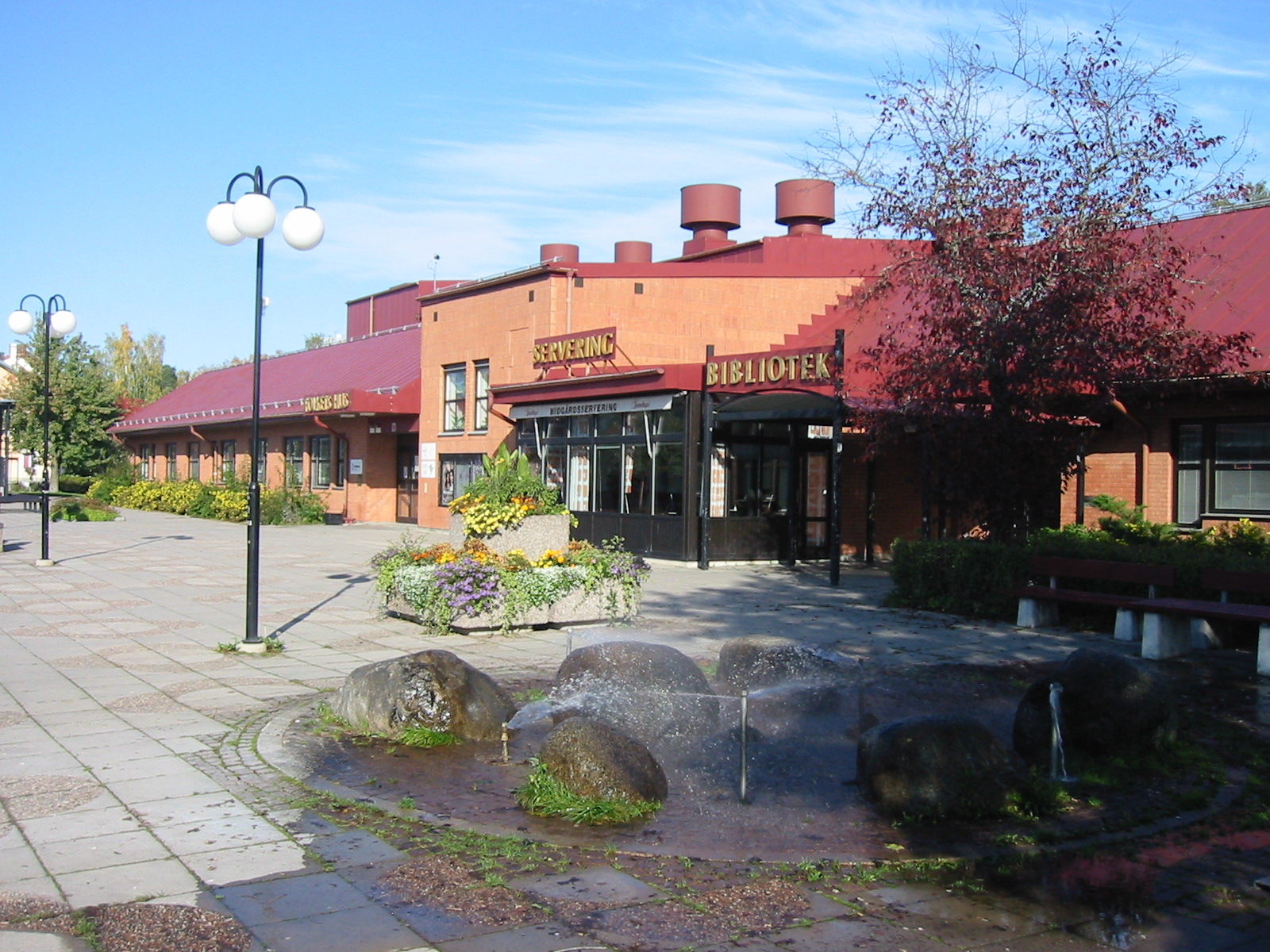 Surahammar library